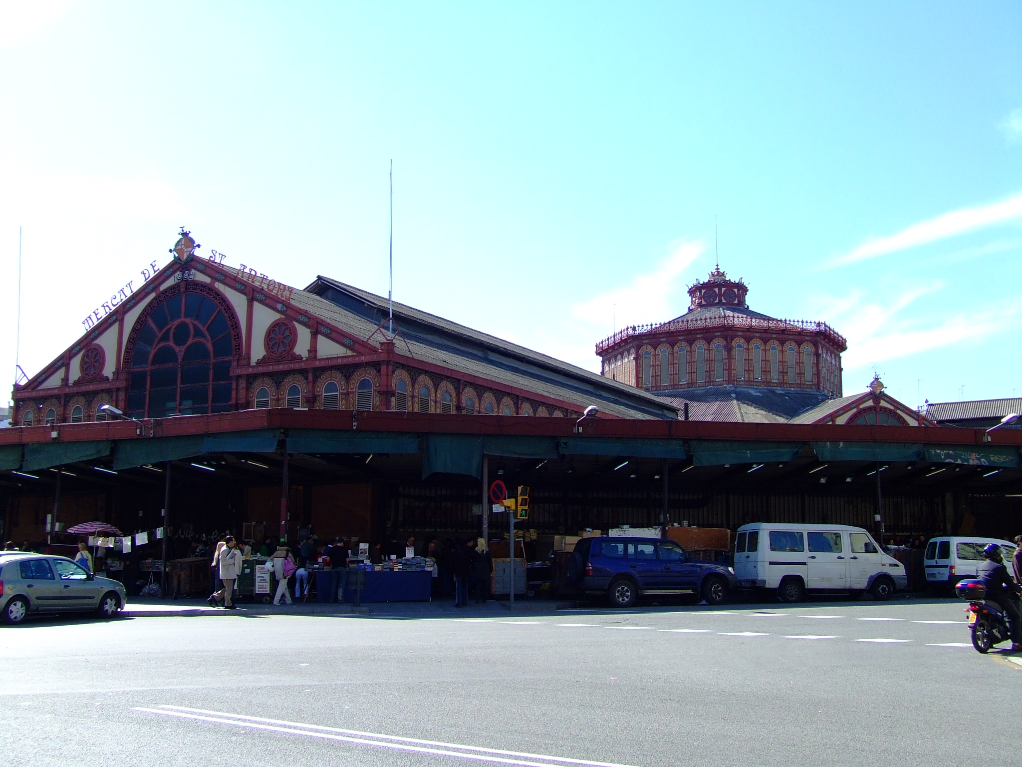 Barcelona